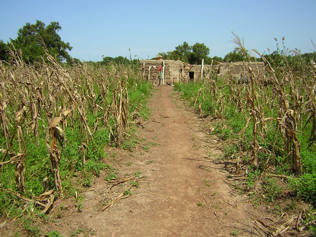 Agriculture and buildings inside the Bontioli National Park, Burkina Faso, West Africa